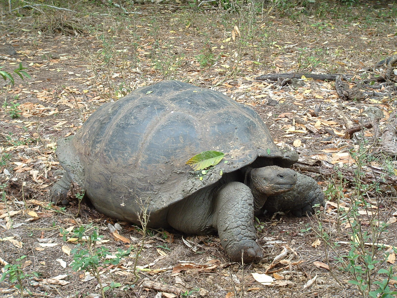 Tortuga Galápago